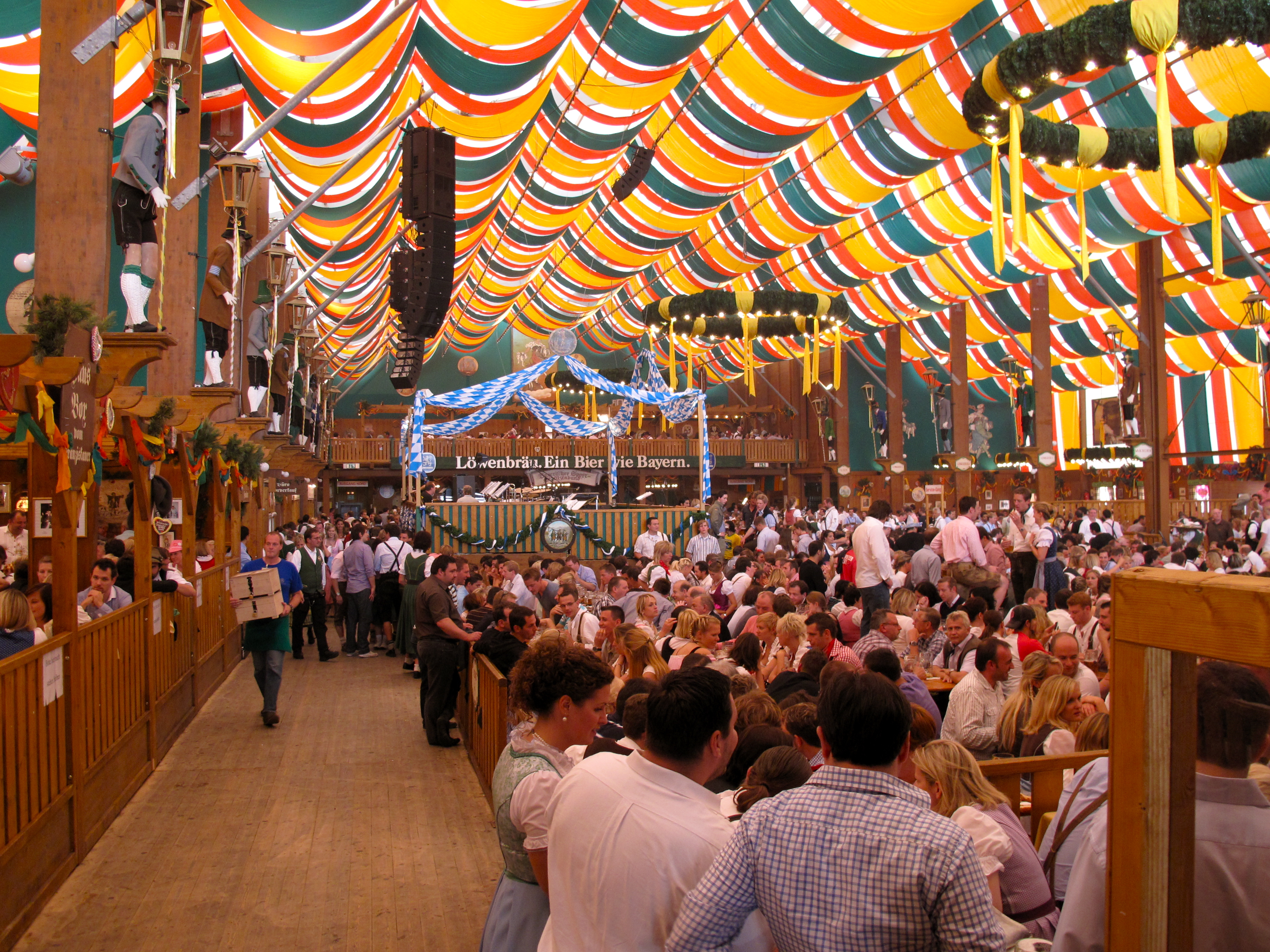 Oktoberfest in September 2009: Bierzelt (Beertent) of the Löwenbräu Brewery.